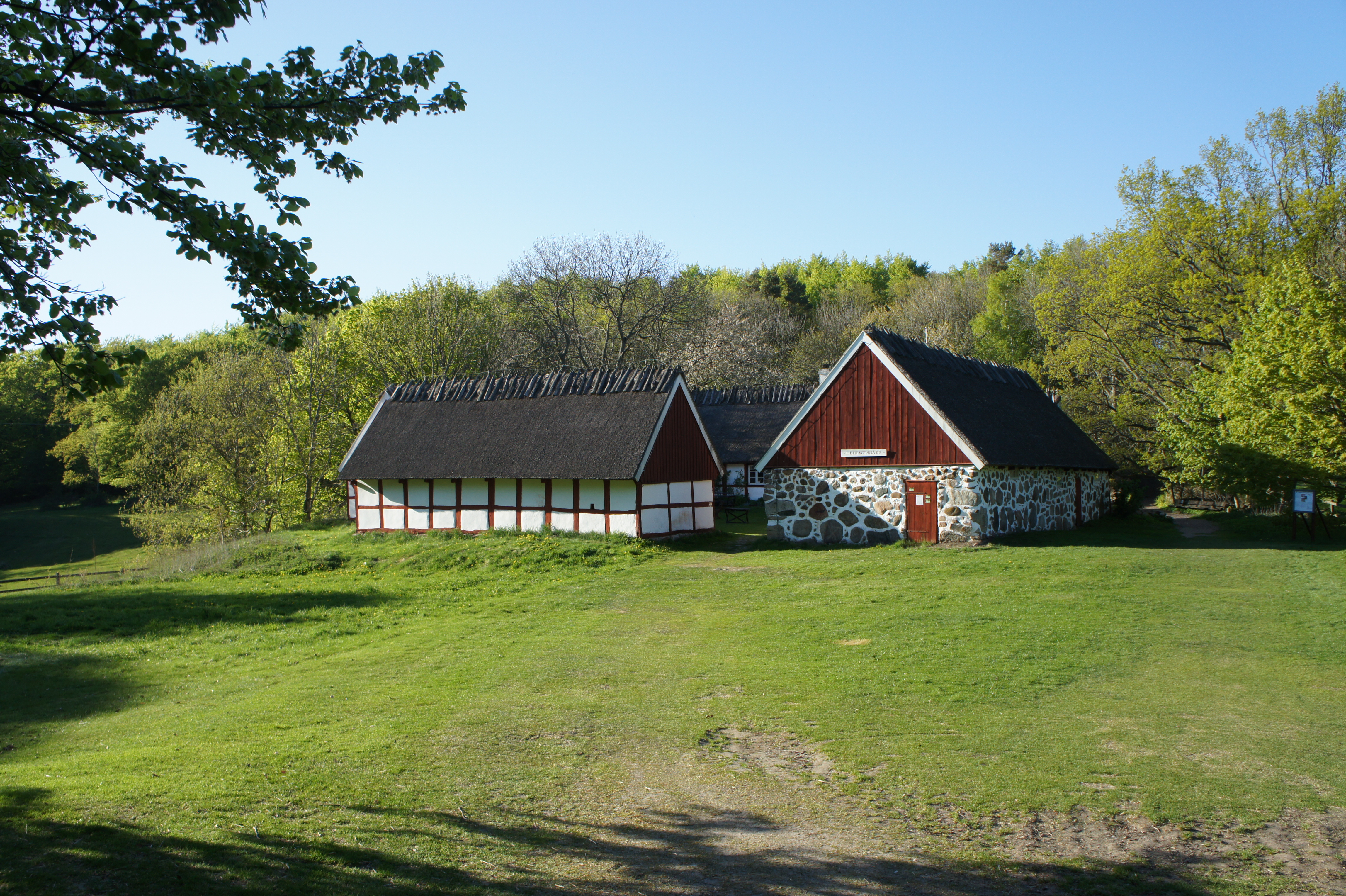 The old farmhouse Himmelstorp at Mölle, Sweden, today a homestead museum